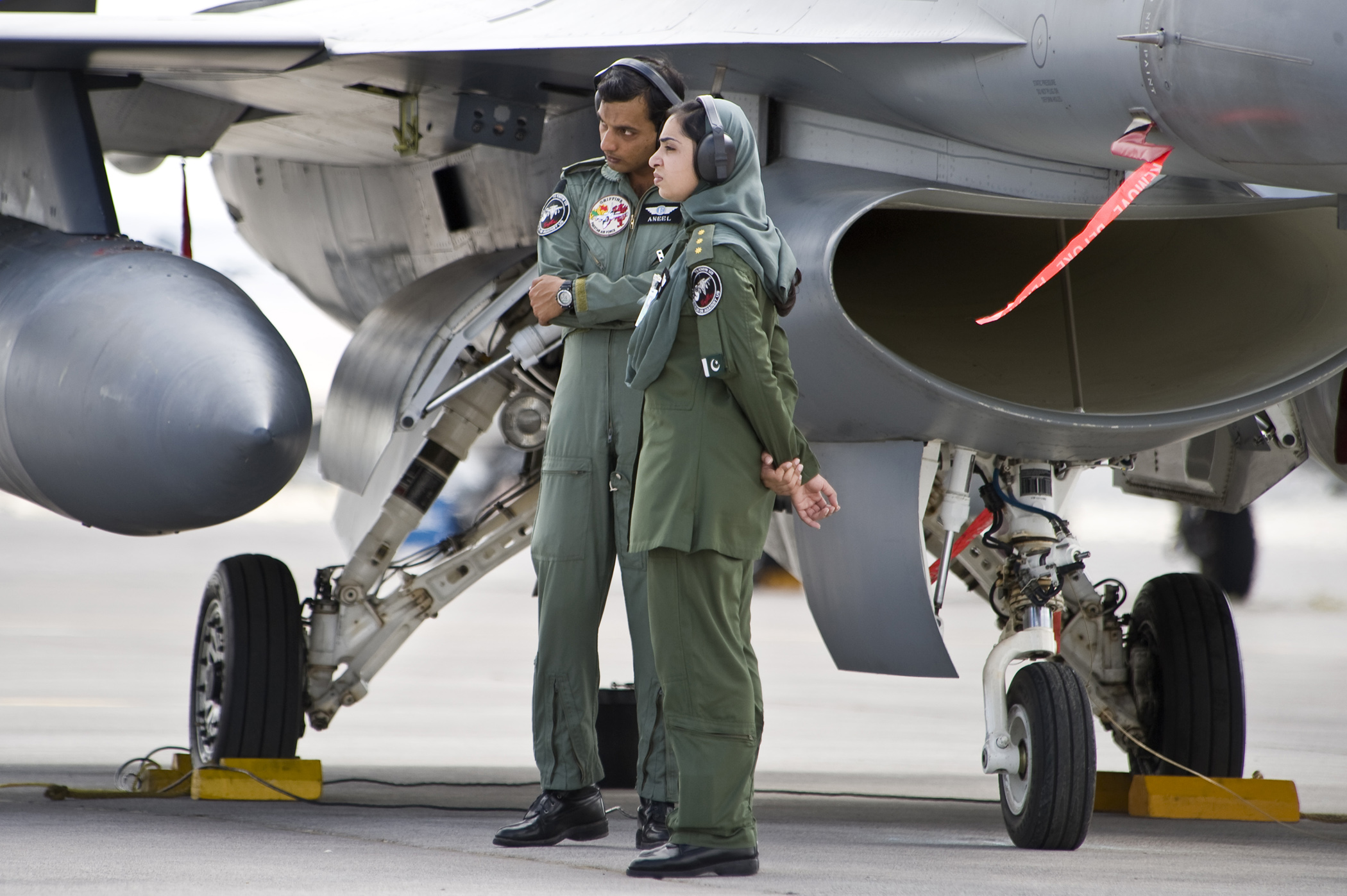 NELLIS AIR FORCE BASE, Nev. -- Maintenance officers from the Pakistan Air Force oversee an early morning launch of their F-16s during Red Flag 10-4 at Nellis on July 26, 2010. The U.S. Air Force is hosting approximately 100 Pakistan Air Force pilots and support personnel at the world's premier large force employment and integration exercise July 17-31 at Nellis Air Force Base, Nev. This is the PAFÕs first time participating in the Red Flag exercise.(U.S. Air Force photo/Lawrence Crespo)